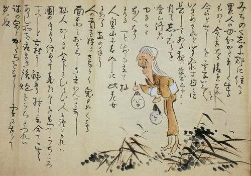 Onibaba from the Bakemono Emaki (ばけもの絵巻)